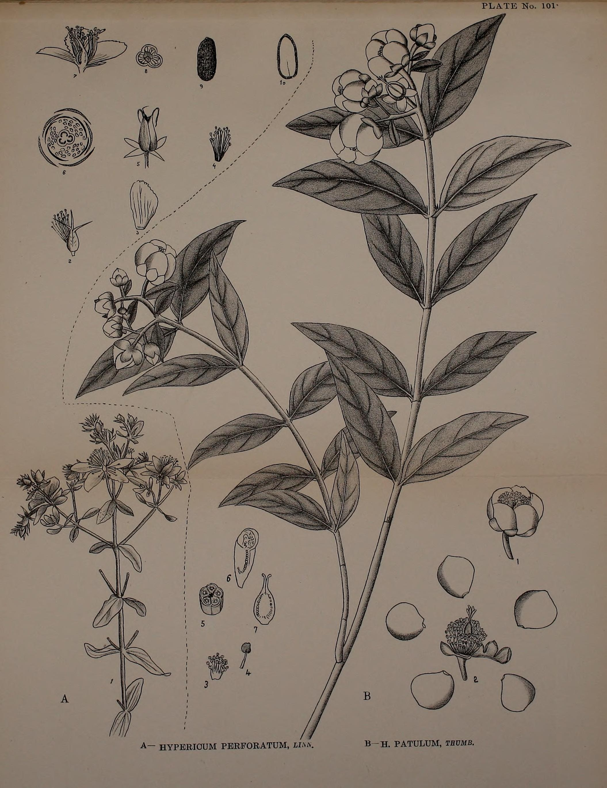 PLATE No. 101- A— HYPERICUM PERFORATUM, LIS*. B— H. PATULUM, TBVMB.